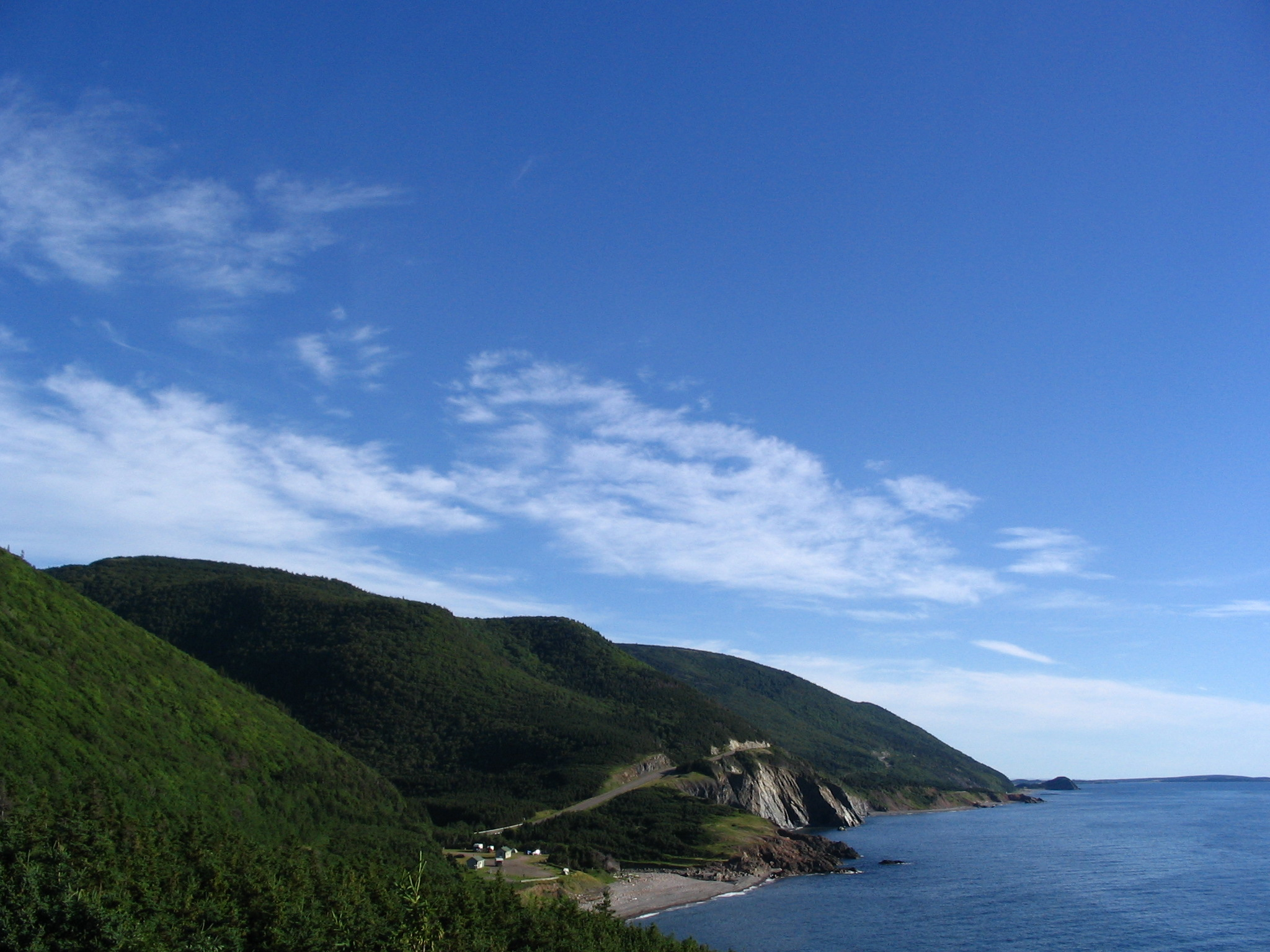 The Cabot trail near Cap-Rouge, in the Cape Breton Highlands National Park, in Nova Scotia.